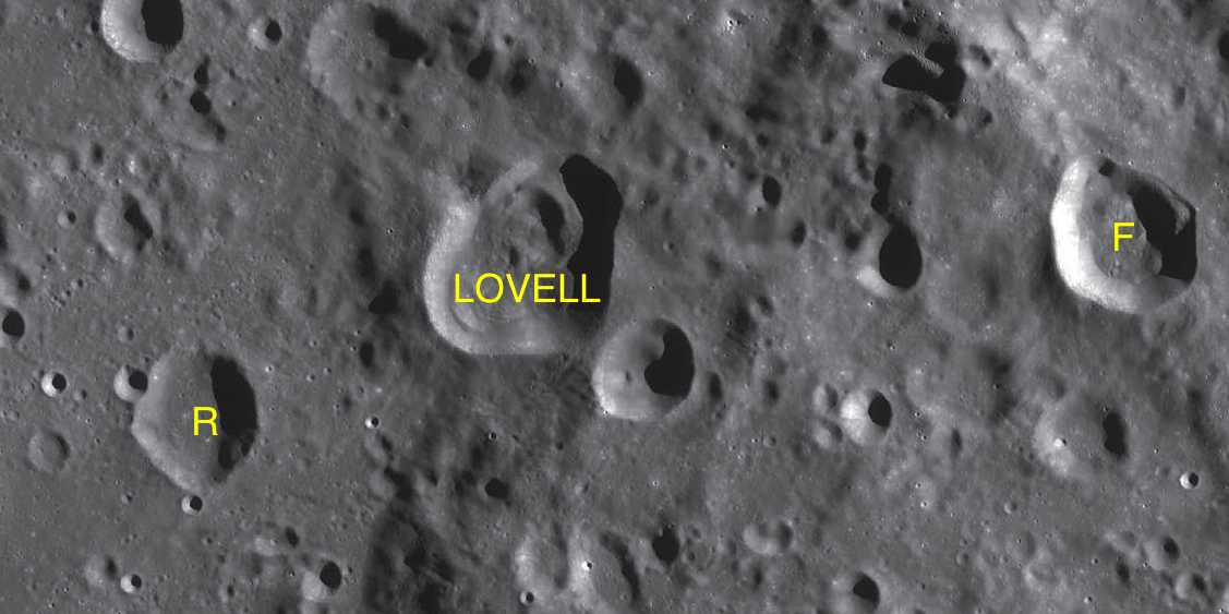 Part of the chart LAC-121 used for the presentation